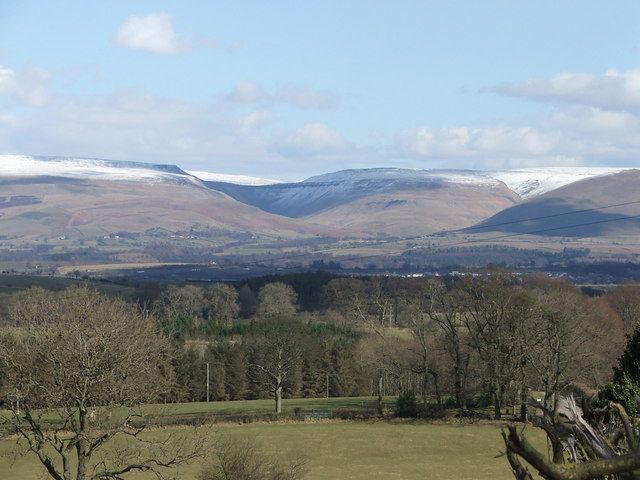 High Cup Nick with light dusting of snow.